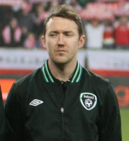 Aiden McGeady, Poland - Ireland, 19 Nov 2013. Aidan McGeady is a winger for English Premier League team Everton.